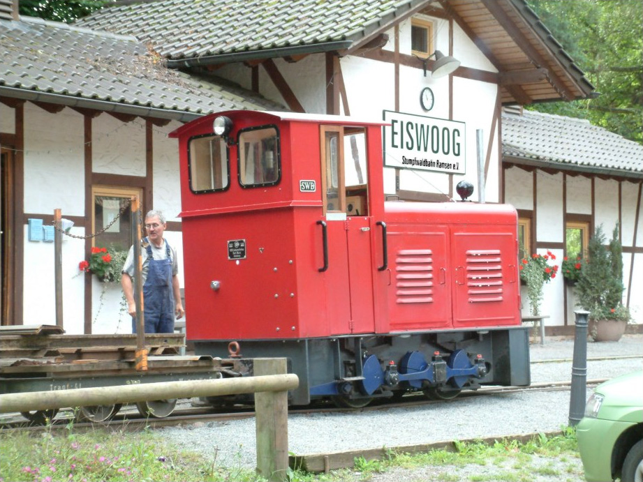 Light railway near Eiswoog, Pfalz (Germany) (1)